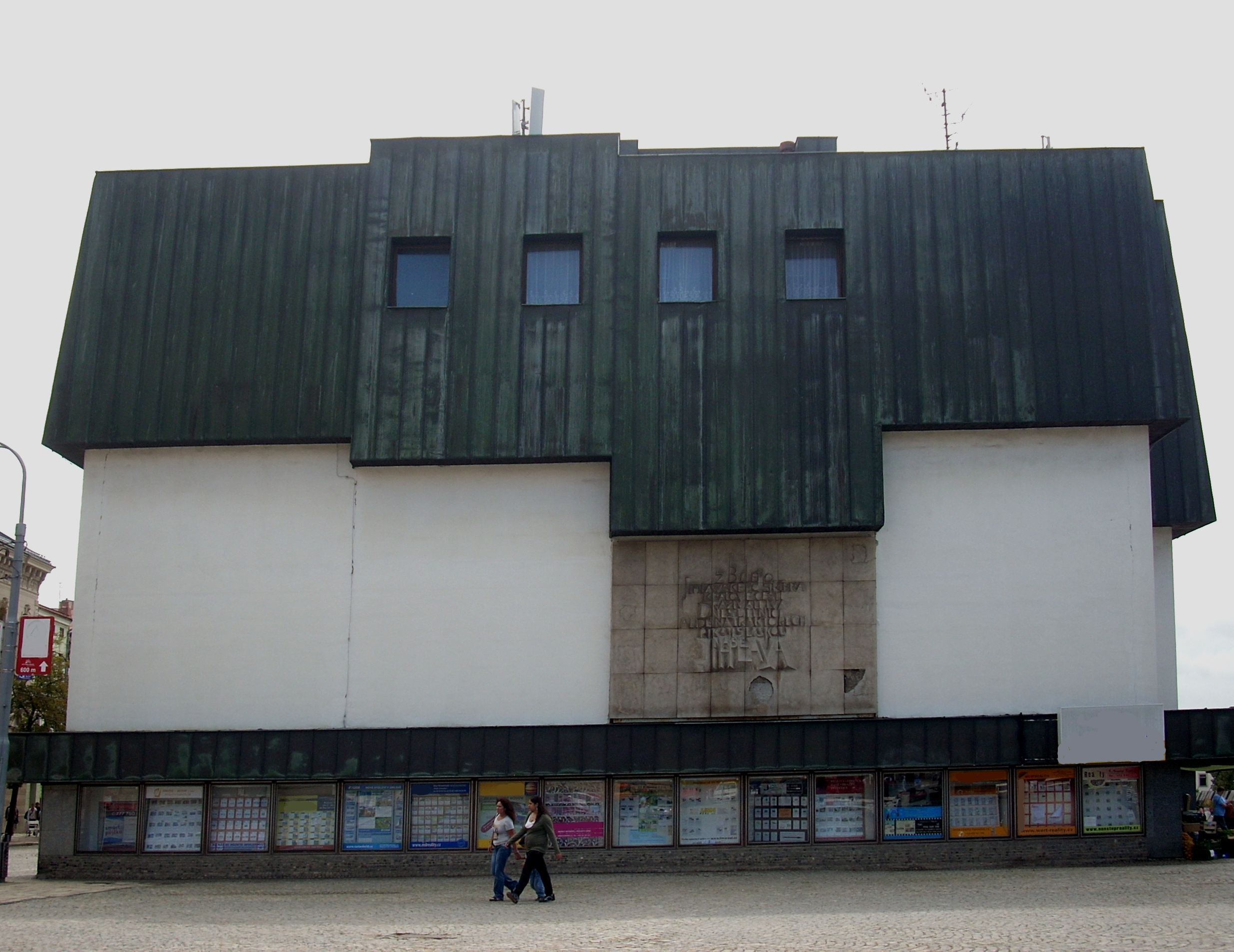 Department store Prior - Masaryk square Jihlava